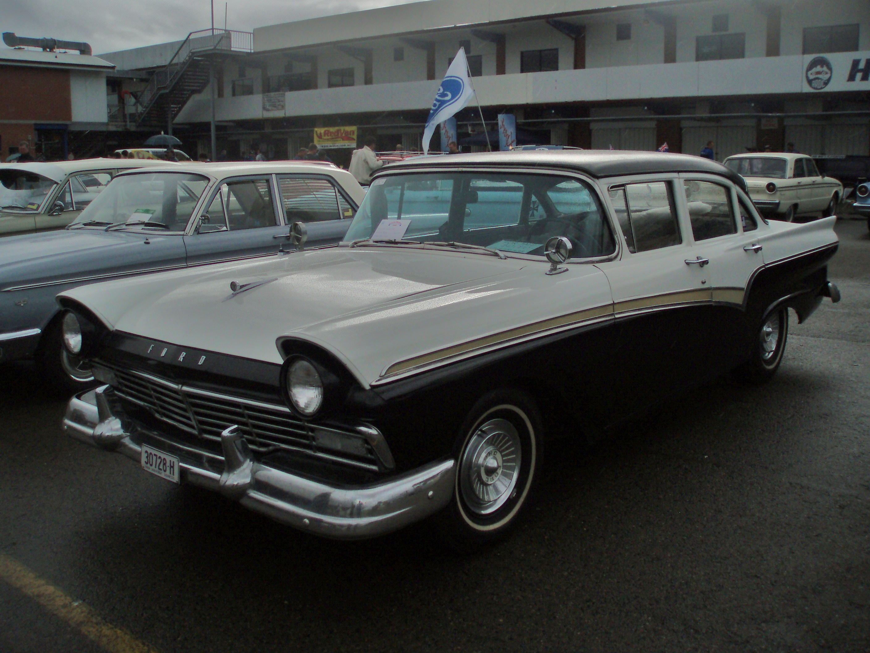 1957 Ford Custom 300 sedan. These were not available here new. Ford Australia instead fitted Canadian grilles and side trims to the US 1955-56 Ford for 1957 and 1958. Taken at the New South Wales All Ford Day 2009, held at Eastern Creek Raceway Sydney.